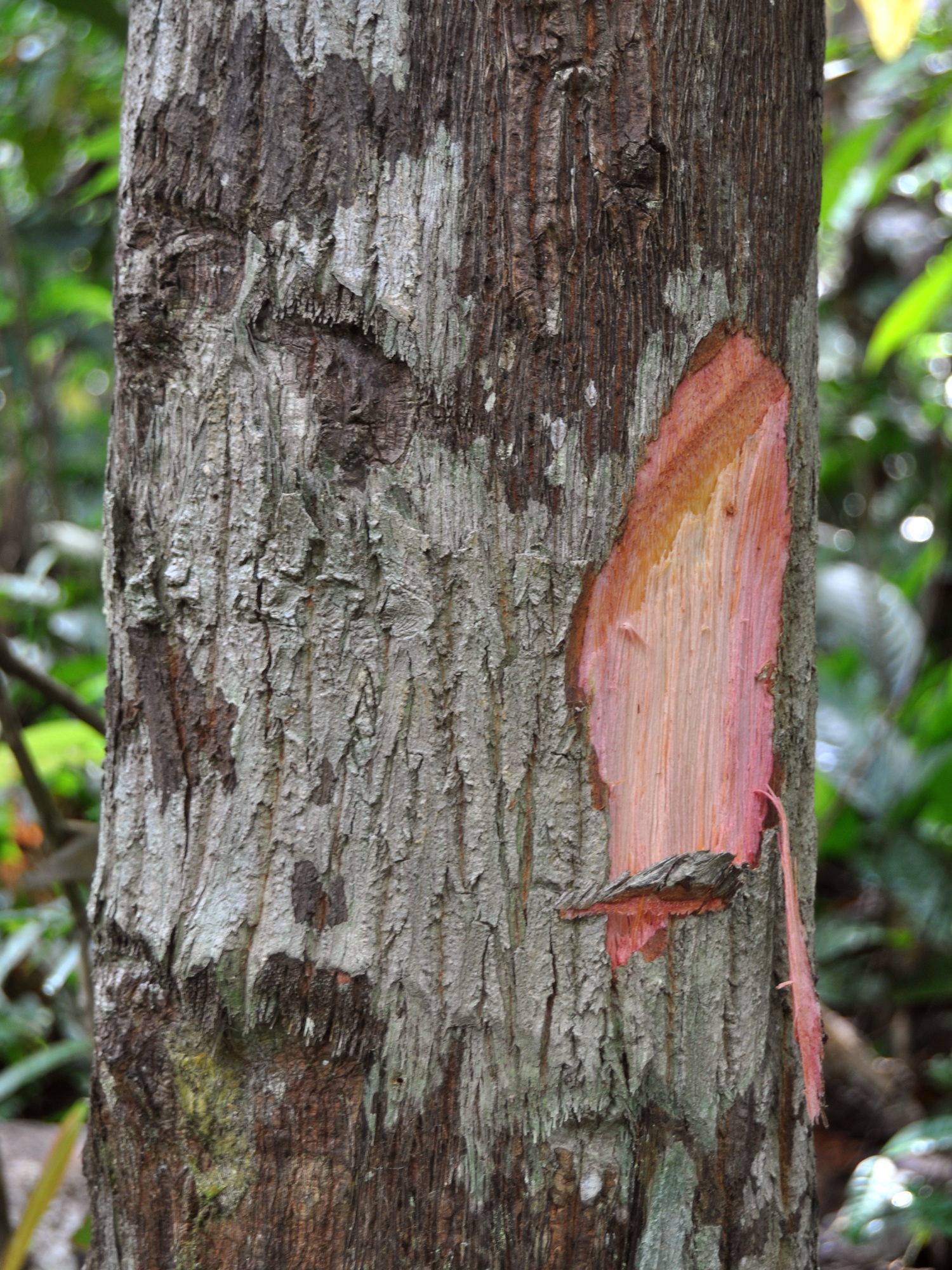 Scorodocarpus borneensis bark, from Jambi, Sumatra, Indonesia.